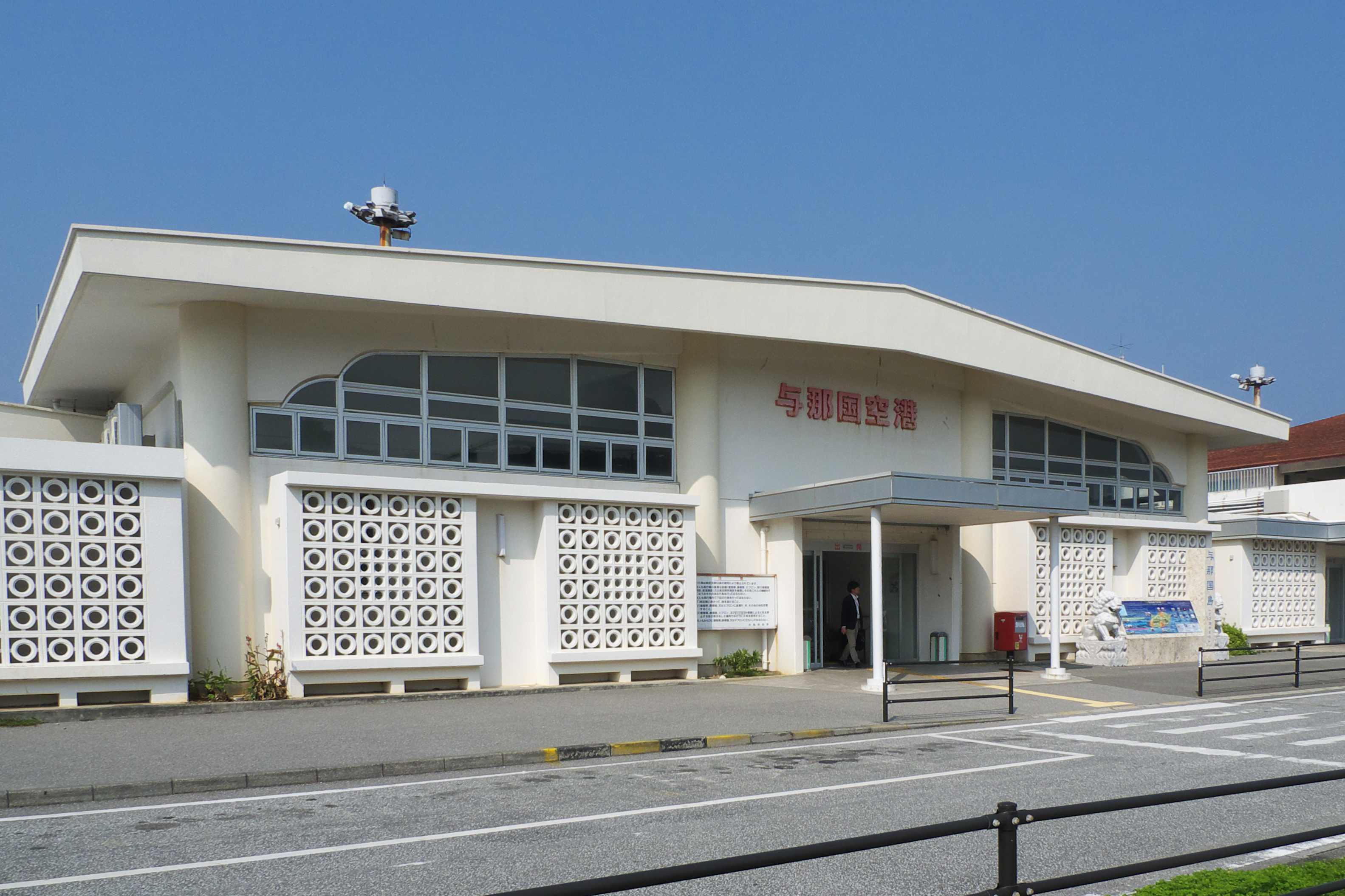 Yonaguni Airport in Yonaguni Town, Okinawa Prefecture, Japan